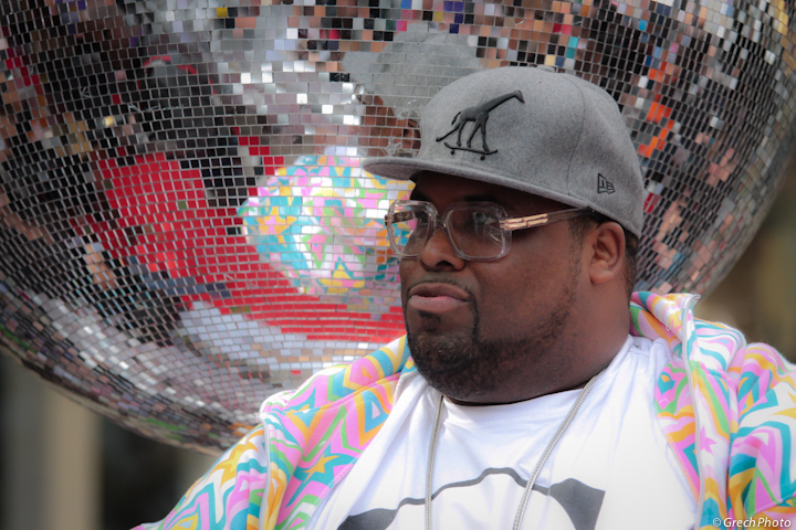 Big Ali in Technoparade 2011